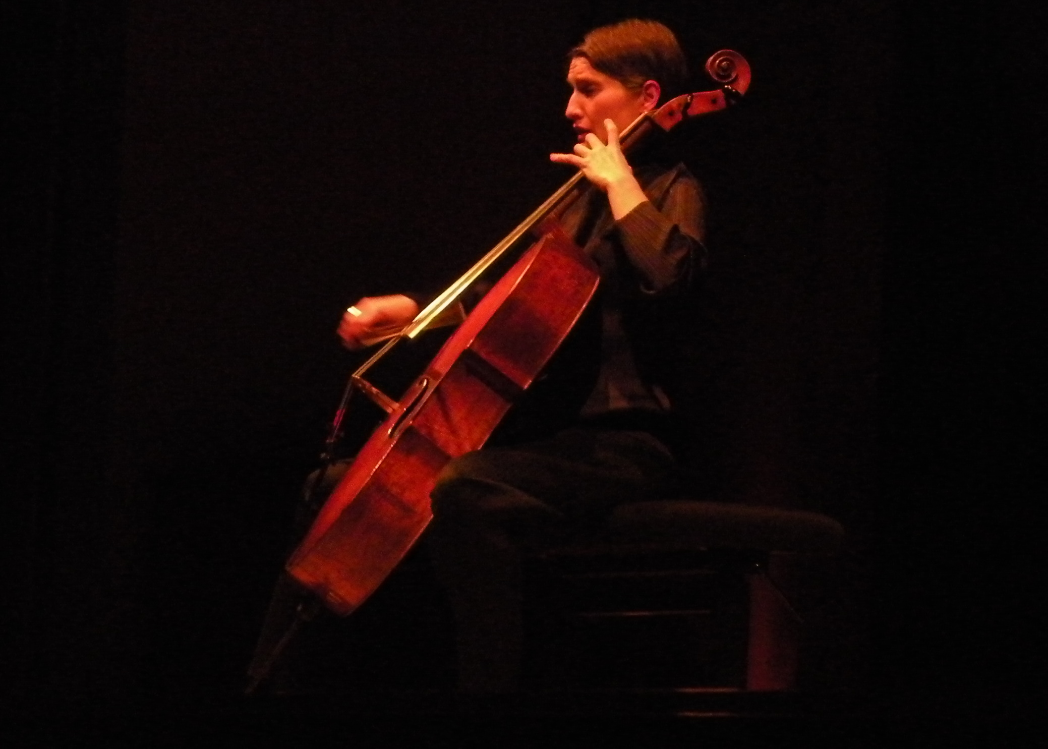 Anne Gastinel, french cellist, on 31 January 2009, during La Folle Journée in Nantes.